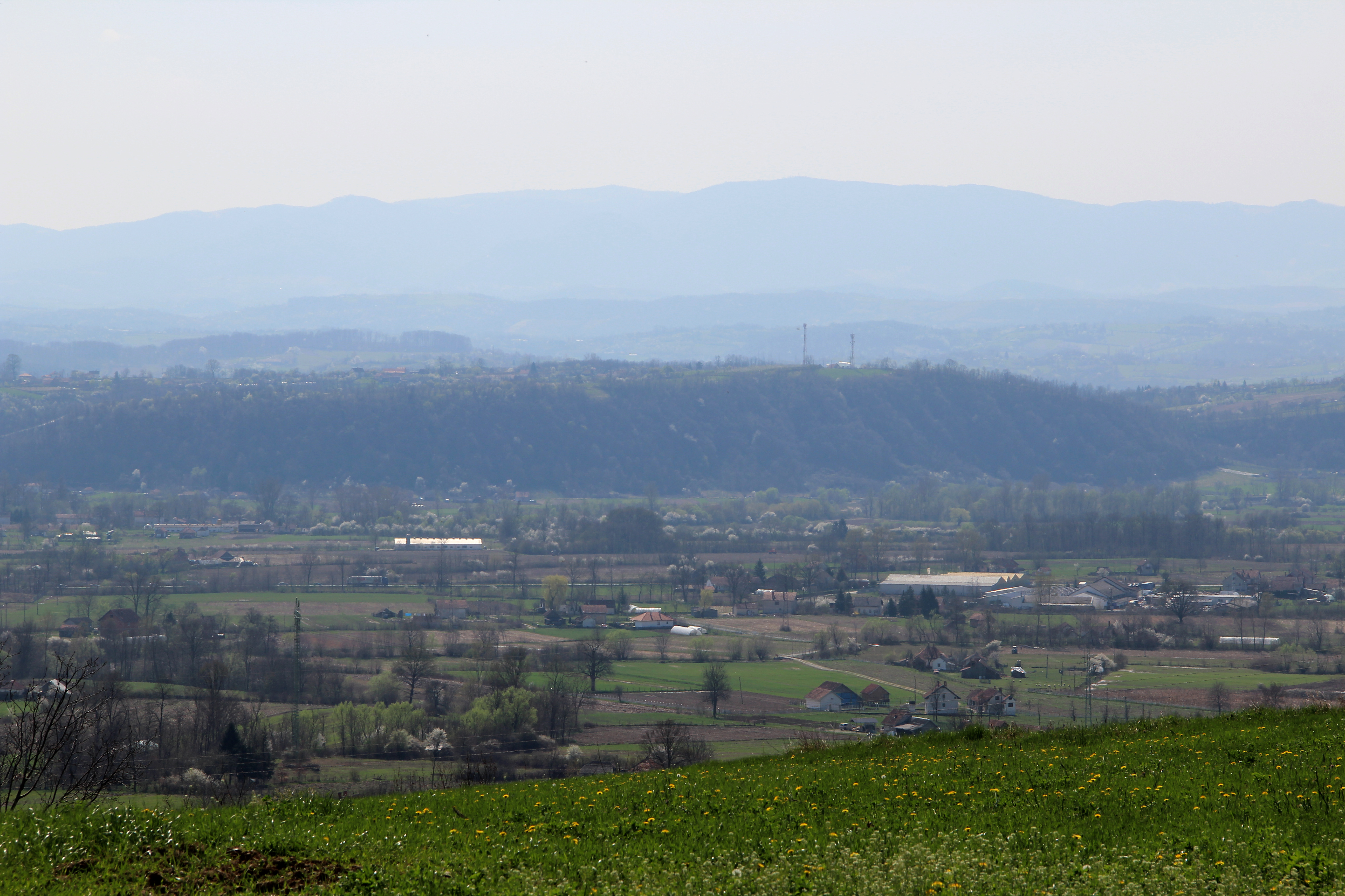 Lukavac village - Municipality of Valjevo - Western Serbia - panorama - view to the south and southwest - view of the valley Valjevo 12